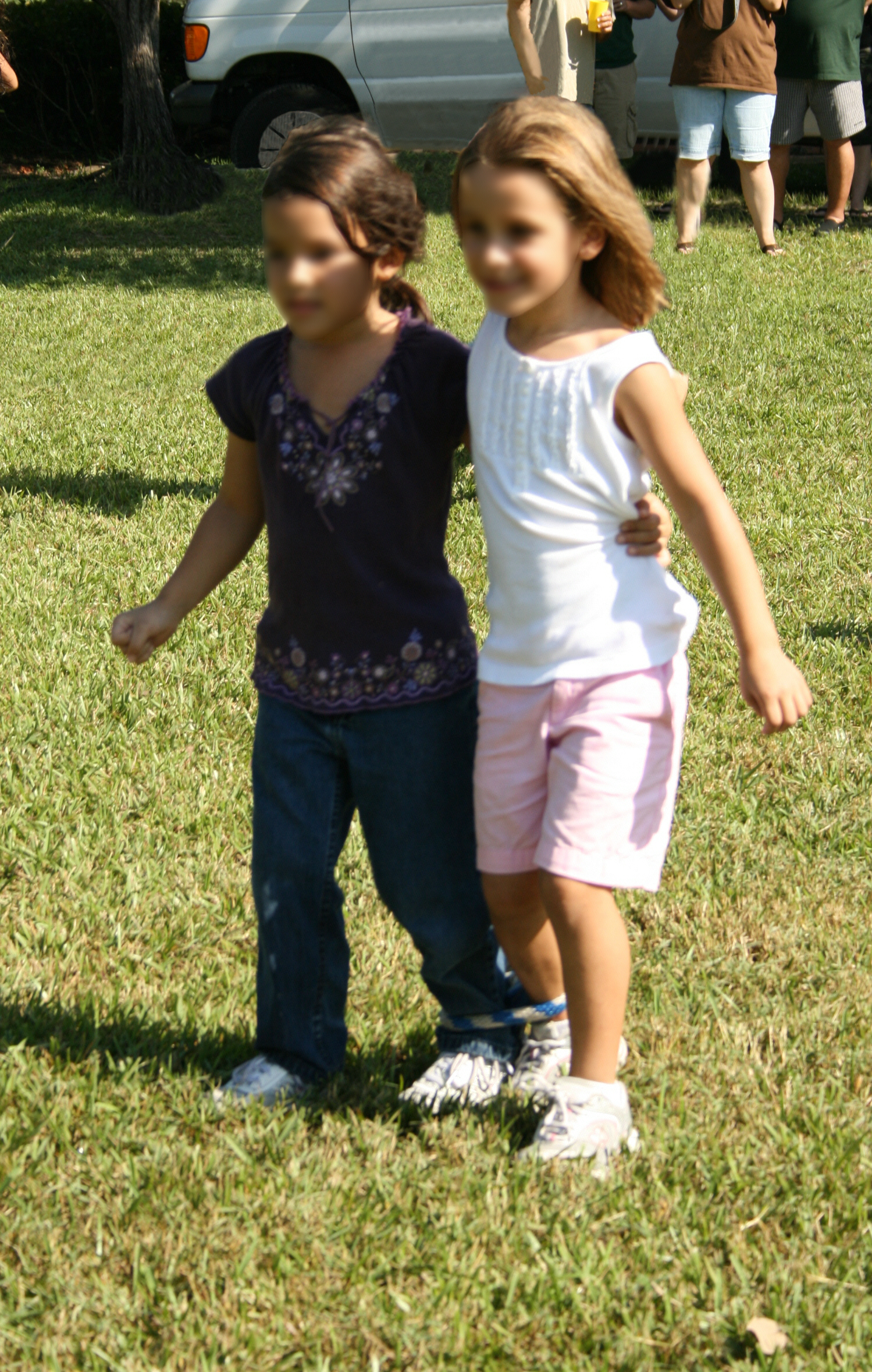 Three Legged Race